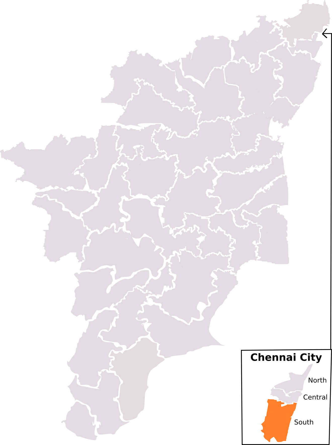 Lok Sabha Election map labeling each constituency for individual pages for Tamil Nadu after delimitation starting 2009 election. Map is based on ECI drawn map from